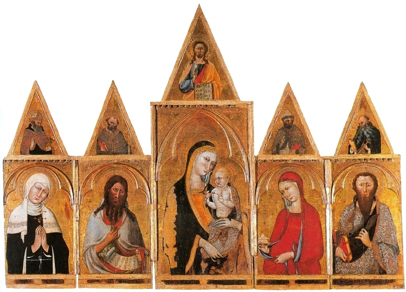 Giovanni di Nicola da Pisa, Polittico, 1350, San Matteo, Pisa.